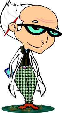 Elex Professor